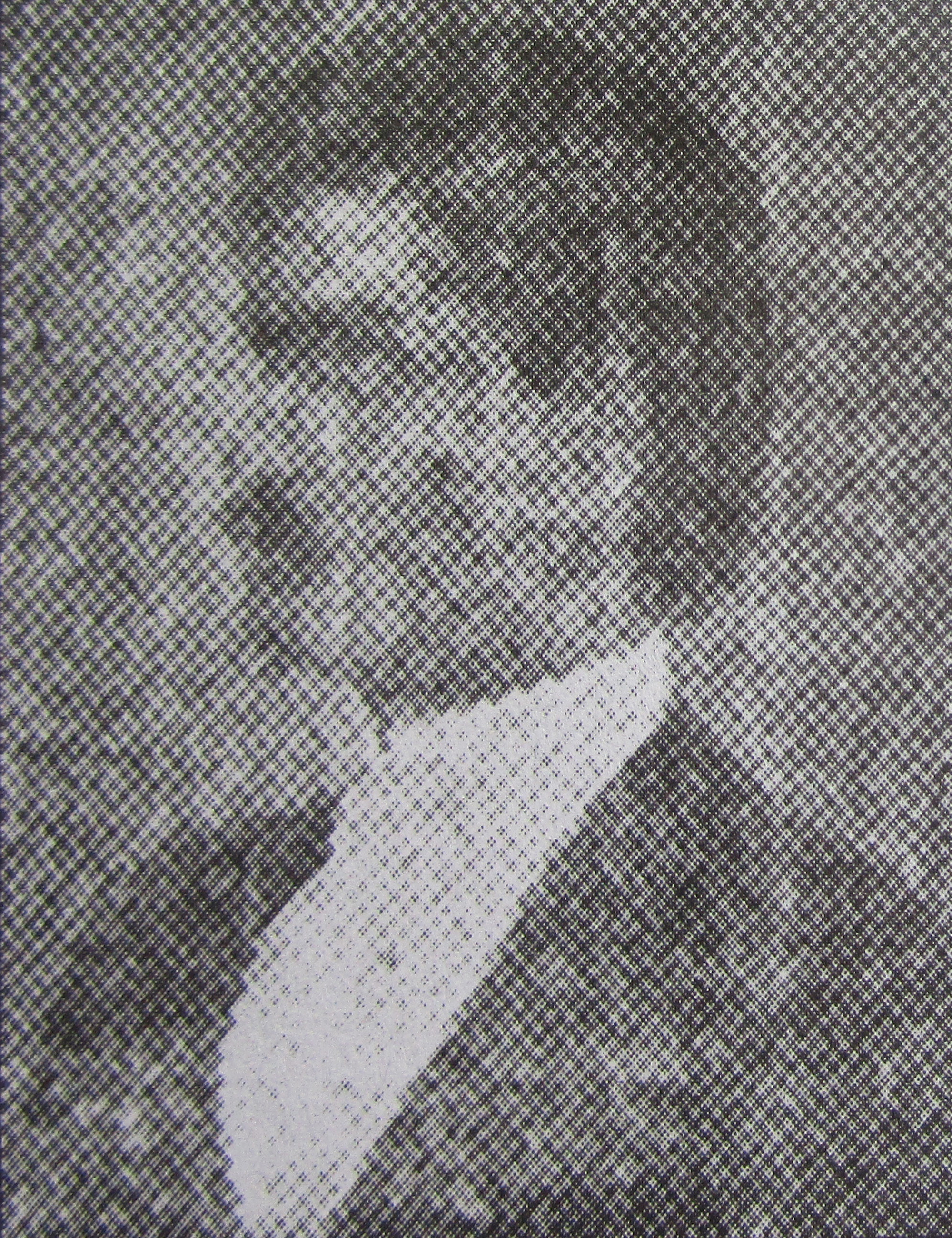 Abdur Rasul